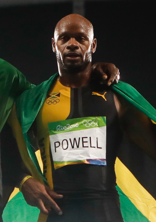 Rio de Janeiro - Usain Bolt ganha terceiro ouro nos Jogos Rio 2016 ao vencer o revezamento 4 x 100m com Asafa Powell, Yohan Blake e Nickel Ashmeade no Estádio Olímpico (Fernando Frazão/Agência Brasil)